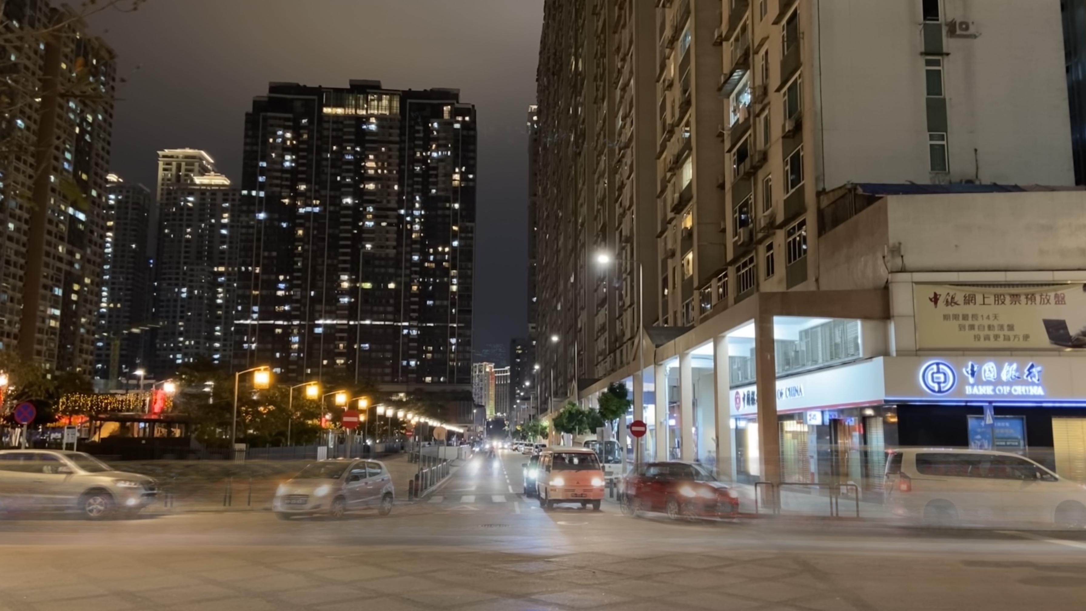 粵語: The northwestern end of Rua de Seng Tou (Taipa, Macau) at night.